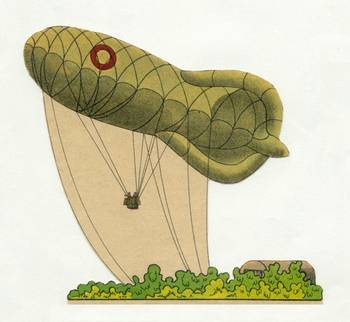 Royal Danish Air Force observation balloon. From a series of cut-outs, c. 1937, manufactured by Adolph Holst A/S.